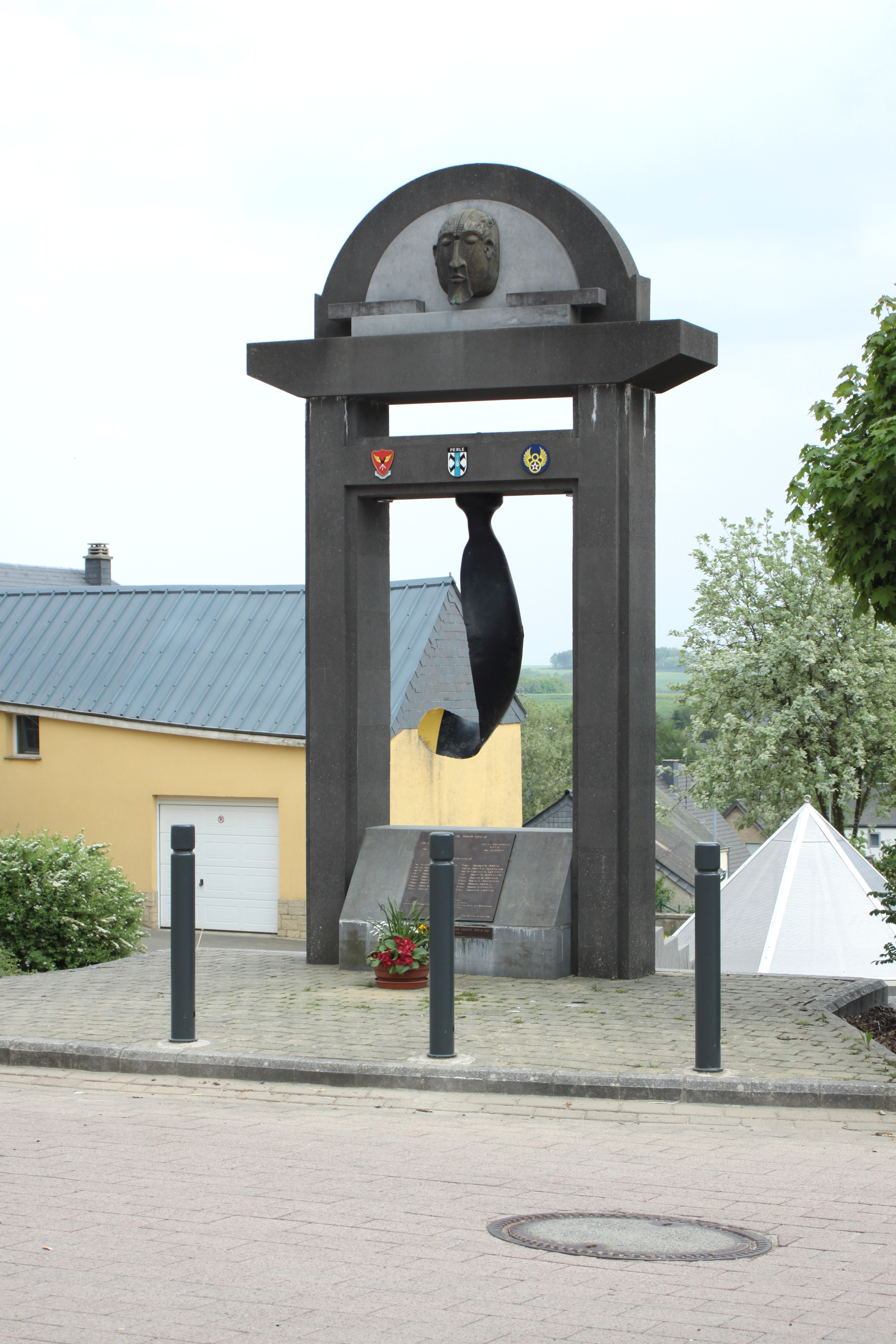 Memorial 385th Bomb Group in Perlé